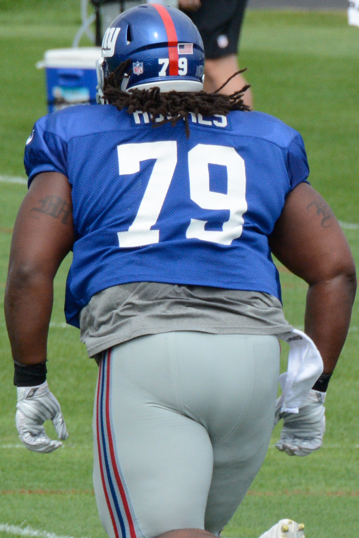 New York Giants training camp